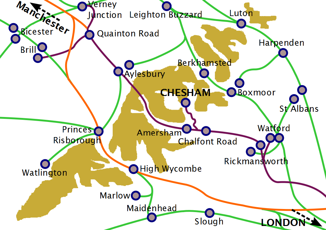 Maximum extent of railways in central Buckinghamshire, 1906. Metropolitan Railway services highlighted in purple, Great Central railway (including GWR joint services) in orange.